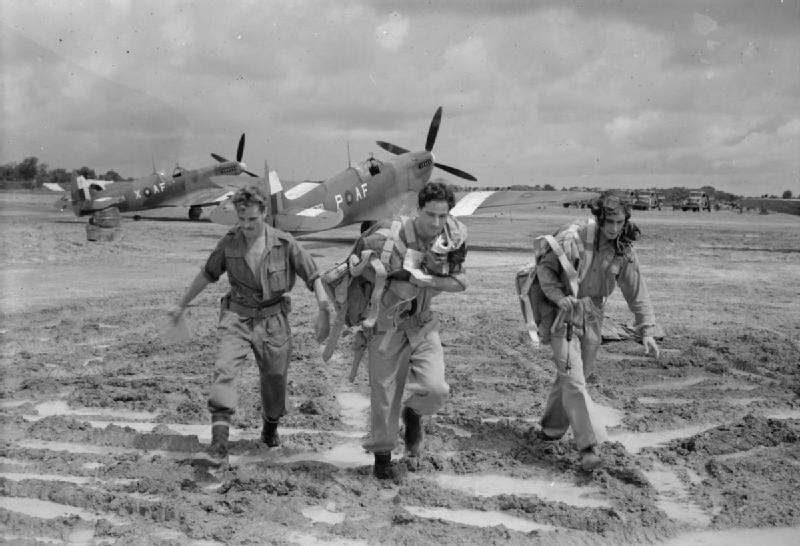 Royal Air Force Operations in the Far East, 1941-1945. Pilots of No. 607 Squadron RAF, leave their Supermarine Spitfire Mark VIIIs to cross the rain-soaked airfield at Mingaladon, Burma, after returning from a sortie against Japanese troops and shipping on the Sittang river, (The Battle of Sittang Bend). They are (left to right): Flight Lieutenant D A Pidgeon of Tadworth, Surrey; Warrant Officer W G Yates of West Bridgford, Nottingham, and Flight Sergeant R H Whittle of Bracknell, Berkshire.